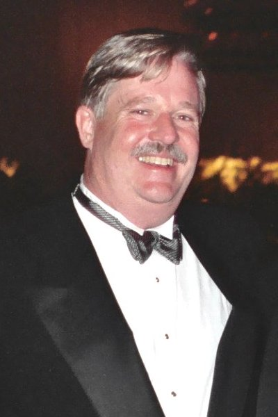 Author Armistead Maupin at the 47th Emmy Awards, 9/11/94 - Governor's Ball - Maupin is the author of the Tales Of The City books.